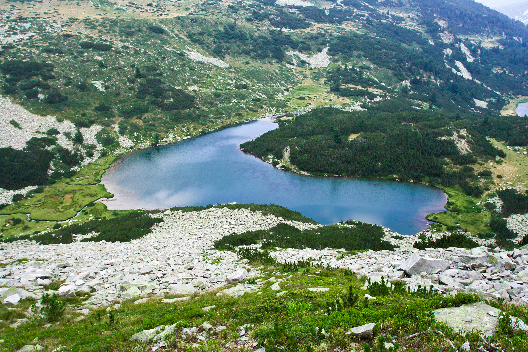 Gorno Vasilashko lake, Pirin mountain, Bulgaria